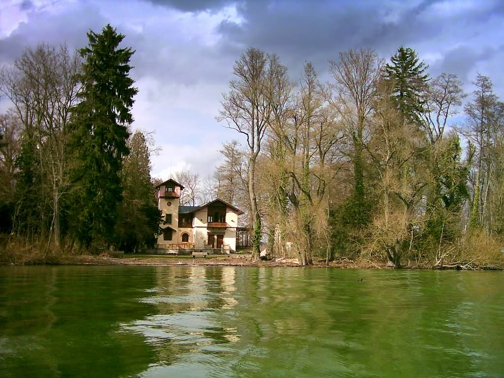 The Casino on Roseninsel (Starnberger See, Bayern), seen from the south